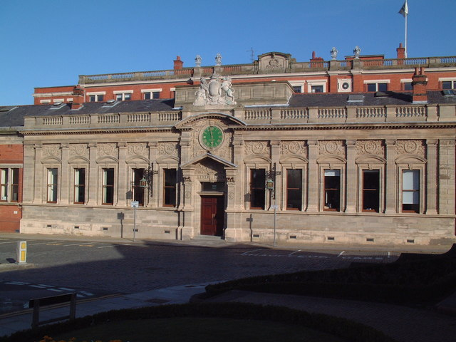 Lever House